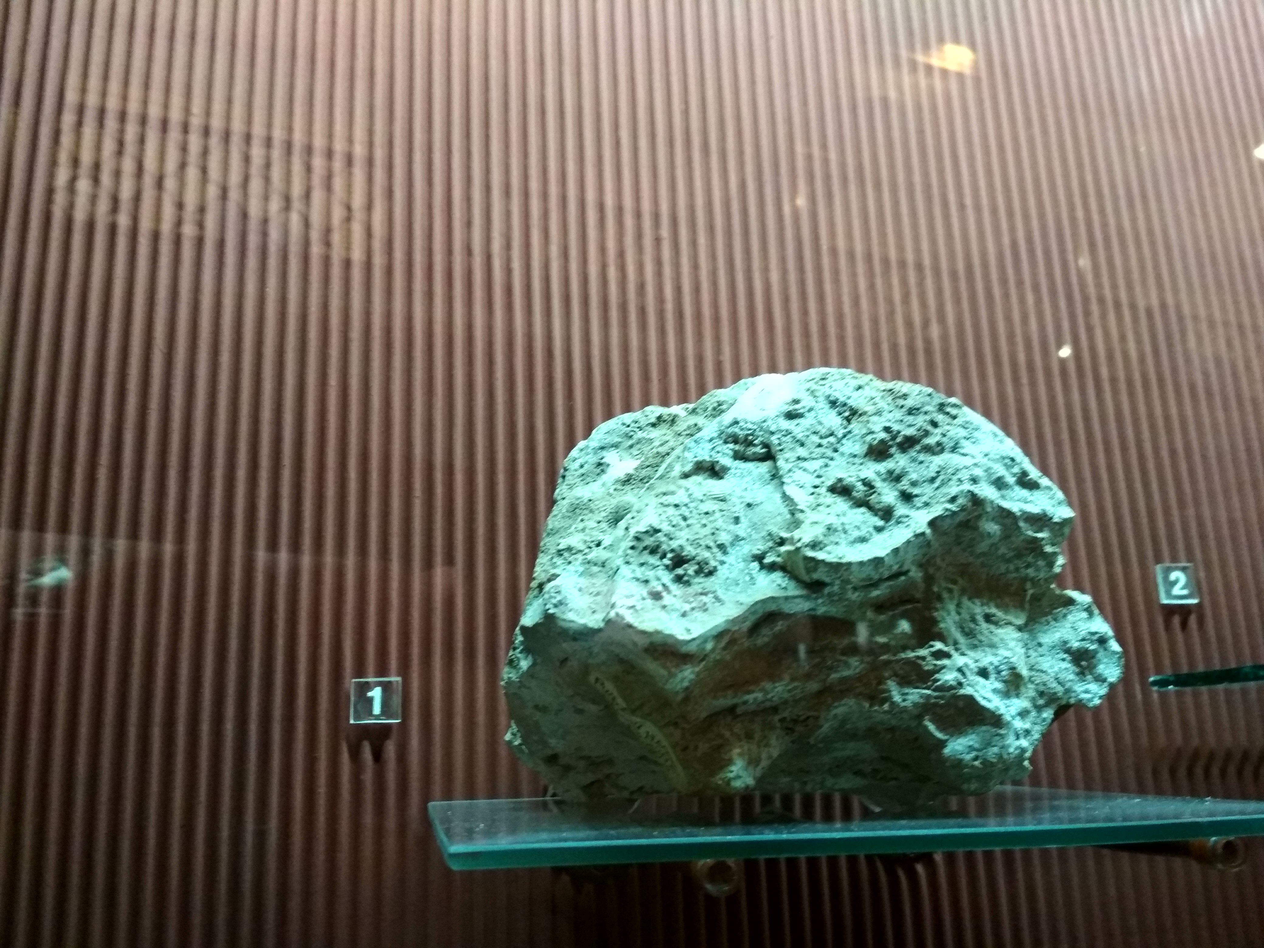 Reef limestone (Badenian – 16-14 mln. years), found in the Fetești defile, Fetești village, Edineț district, Republic of Moldova